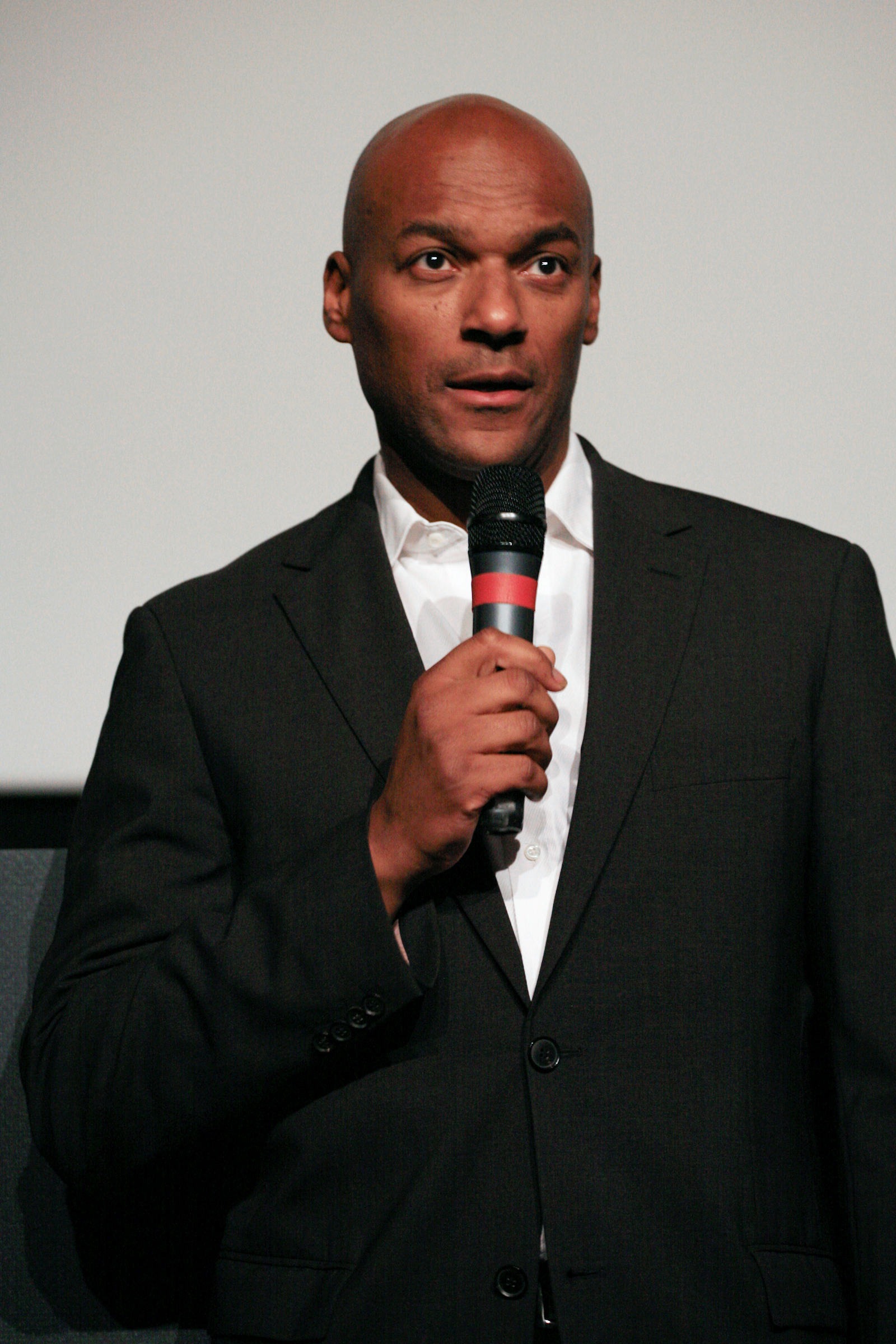 Colin Salmon at Dinard british film festival